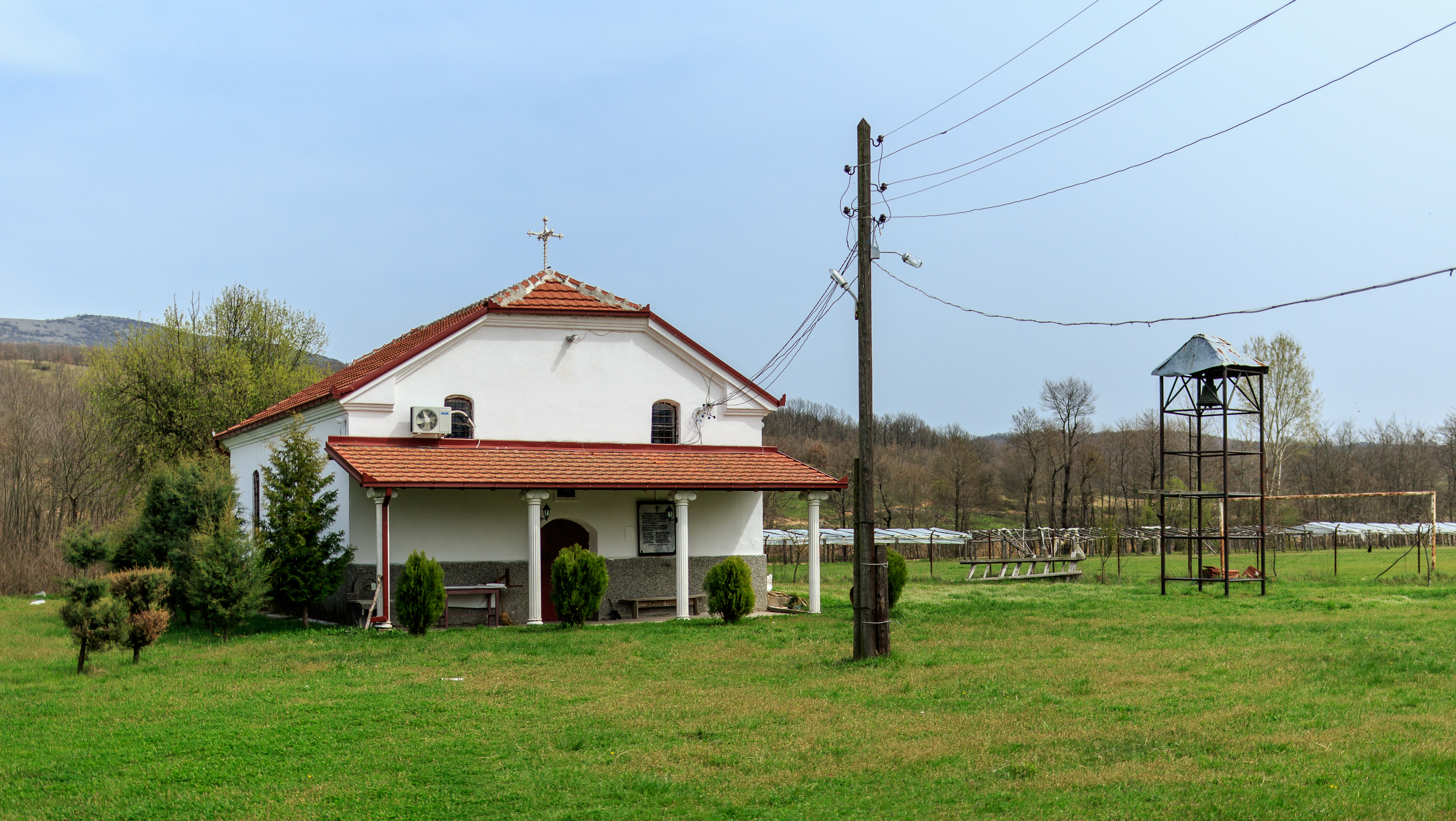 View of Dormition of the Theotokos Church in the village Dolni Lipoviḱ